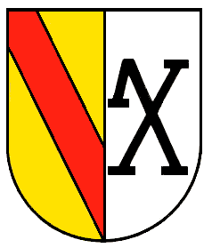 Coat of arms of Broggingen (Herbolzheim)